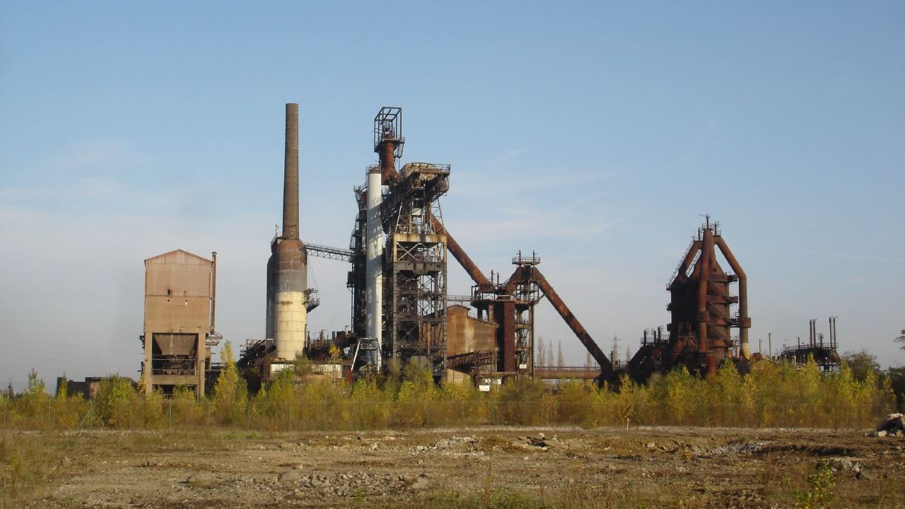 Blast furnace U4 in Uckange, Lorraine, France. Now part of the Parc du Haut-Fourneau.